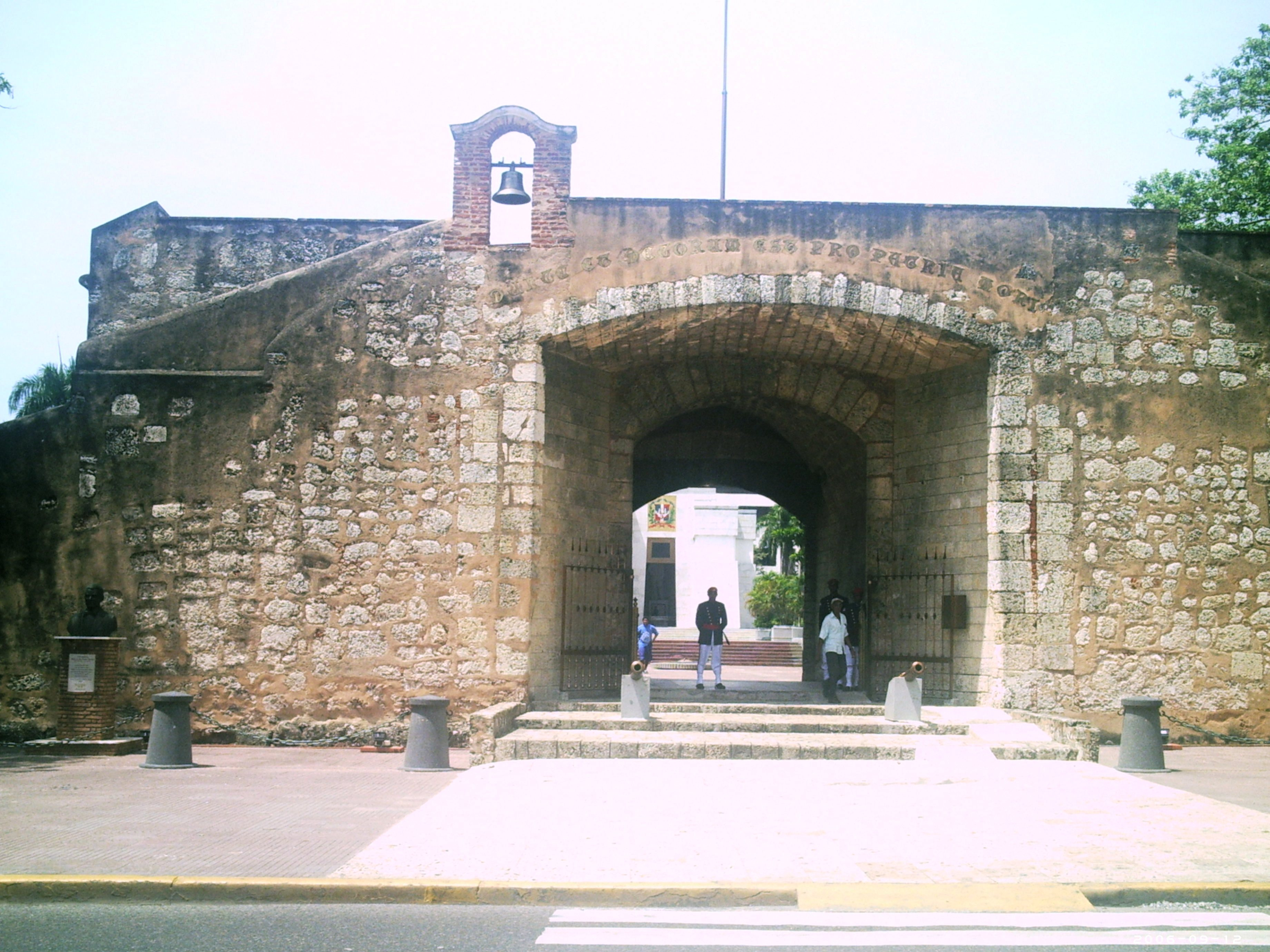 Commonly called Puerta del Conde, the Puerta de la Misericordia (Mercy Gate) was the principal city gate of colonial Santo Domingo. Famous as the place where the independence of the Dominican Republic was declared.